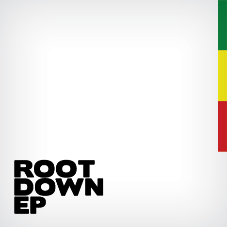 ROOTDOWN EP Album Cover